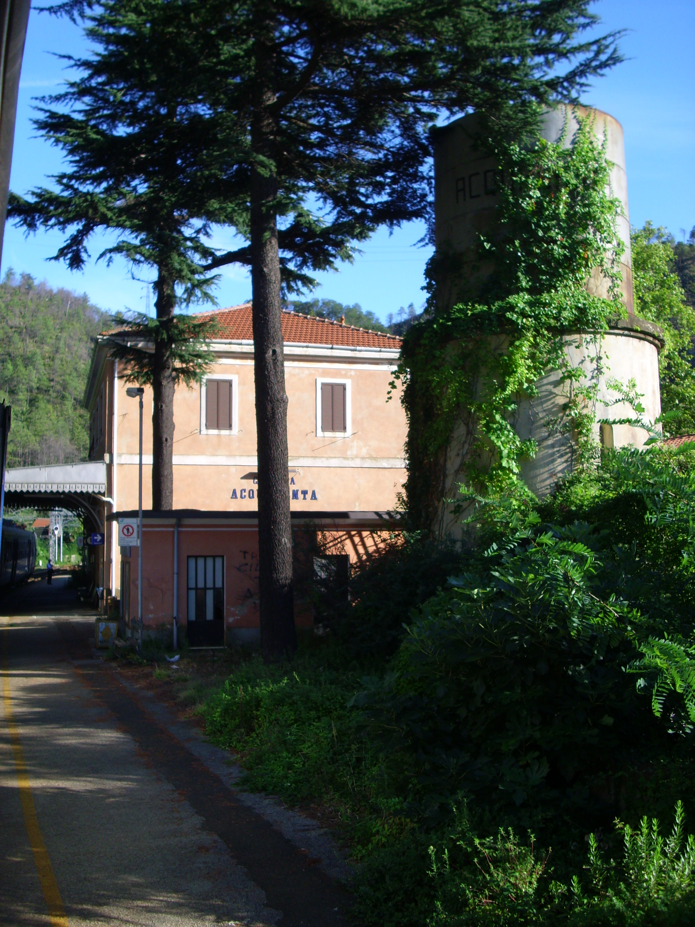 Genoa Acquasanta train station